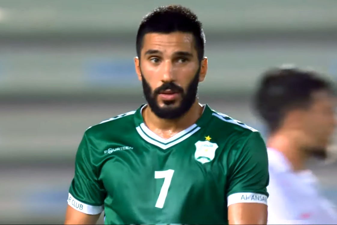 Hassan Maatouk with Ansar against Shabab Sahel during the 2019 Lebanese Elite Cup final